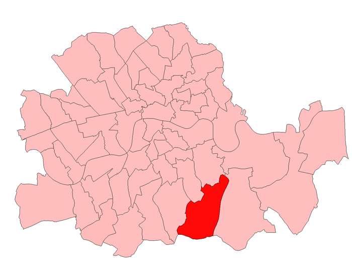 A map of Lewisham West constituency within the London County Council area, as it existed from 1918 to 1949.